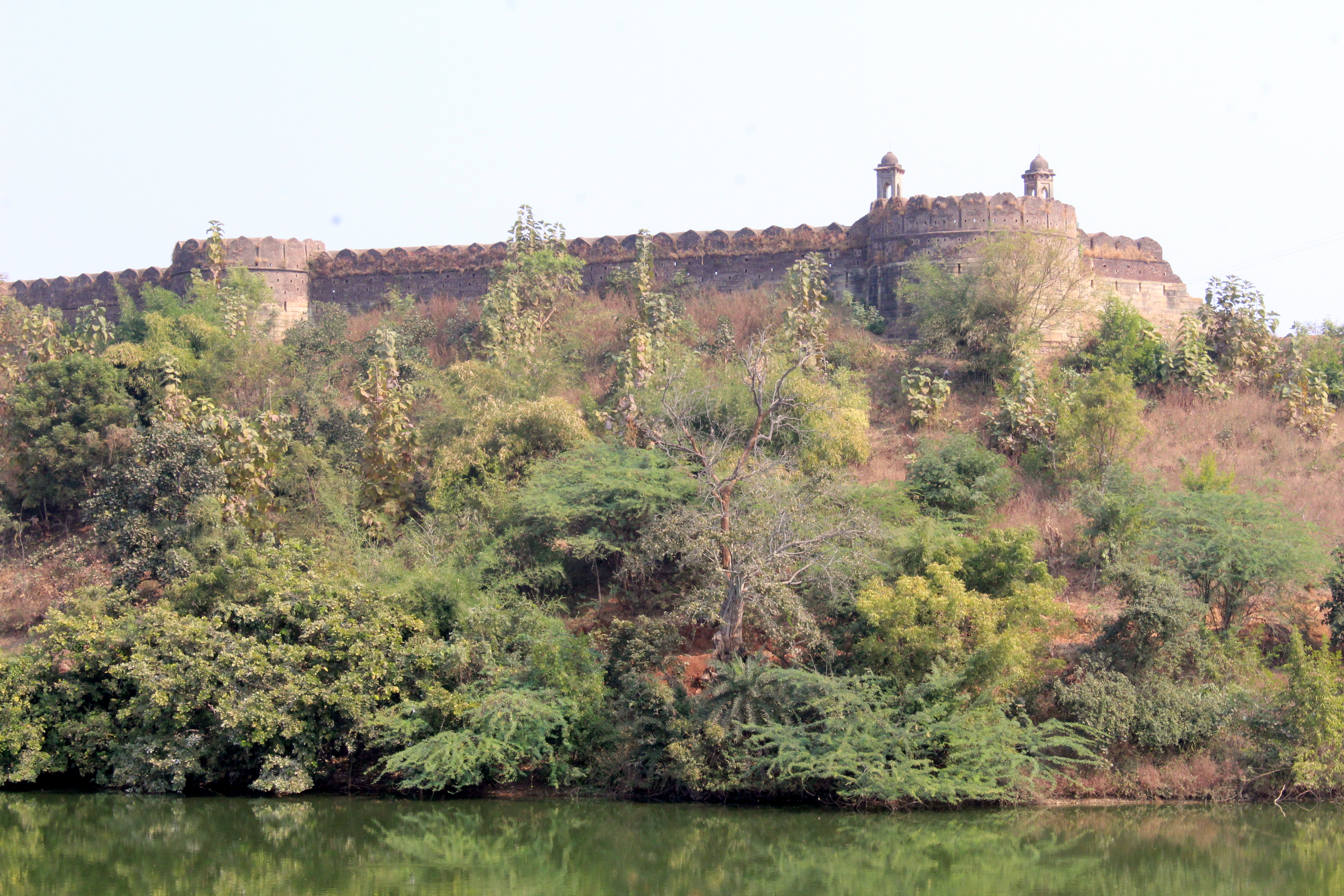 All the remains of the circumambulation wall of Pauni Fort